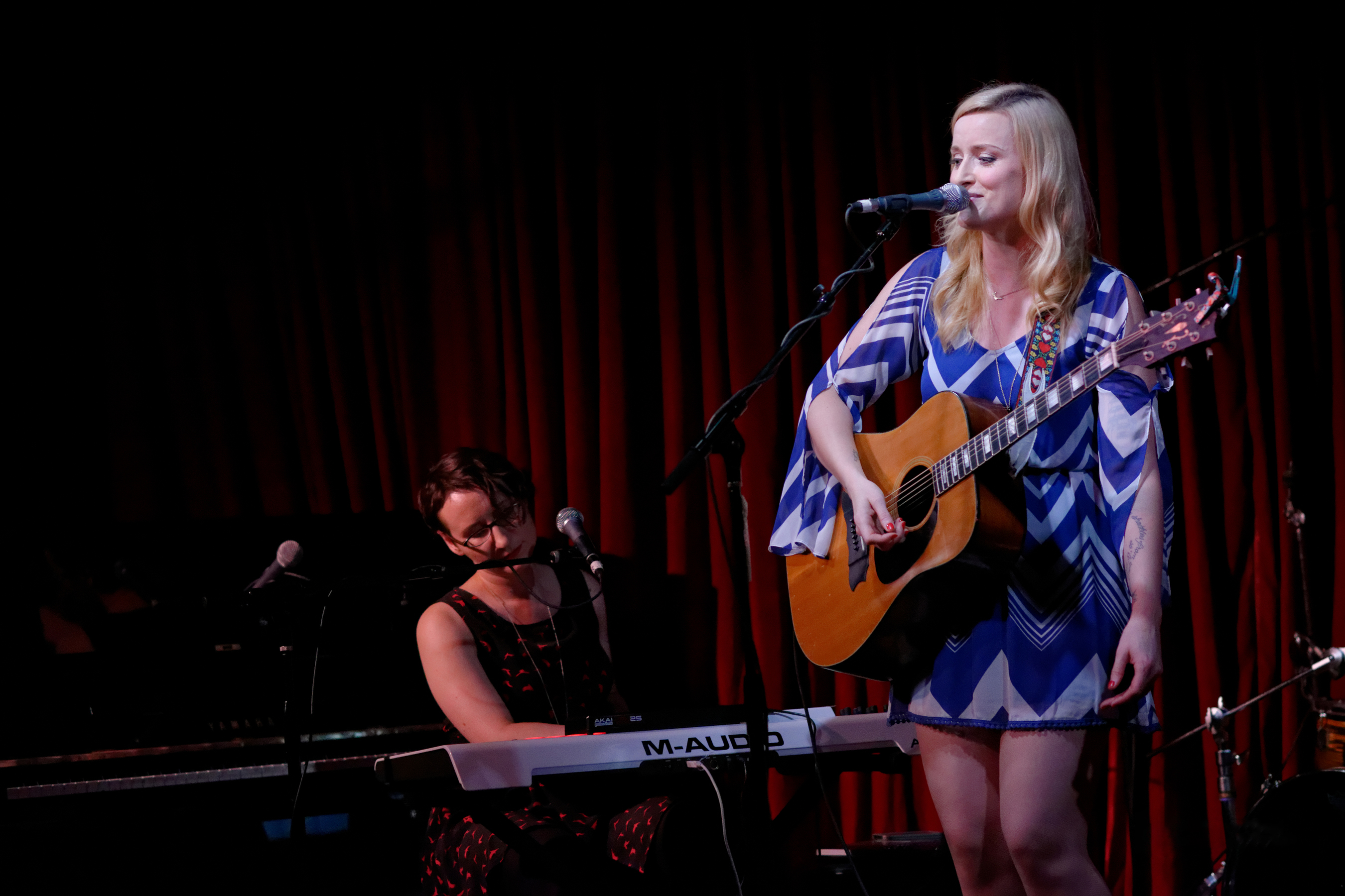 Emma-Lee performing live at the Hotel Cafe in Los Angeles California on Friday June 6th, 2014.